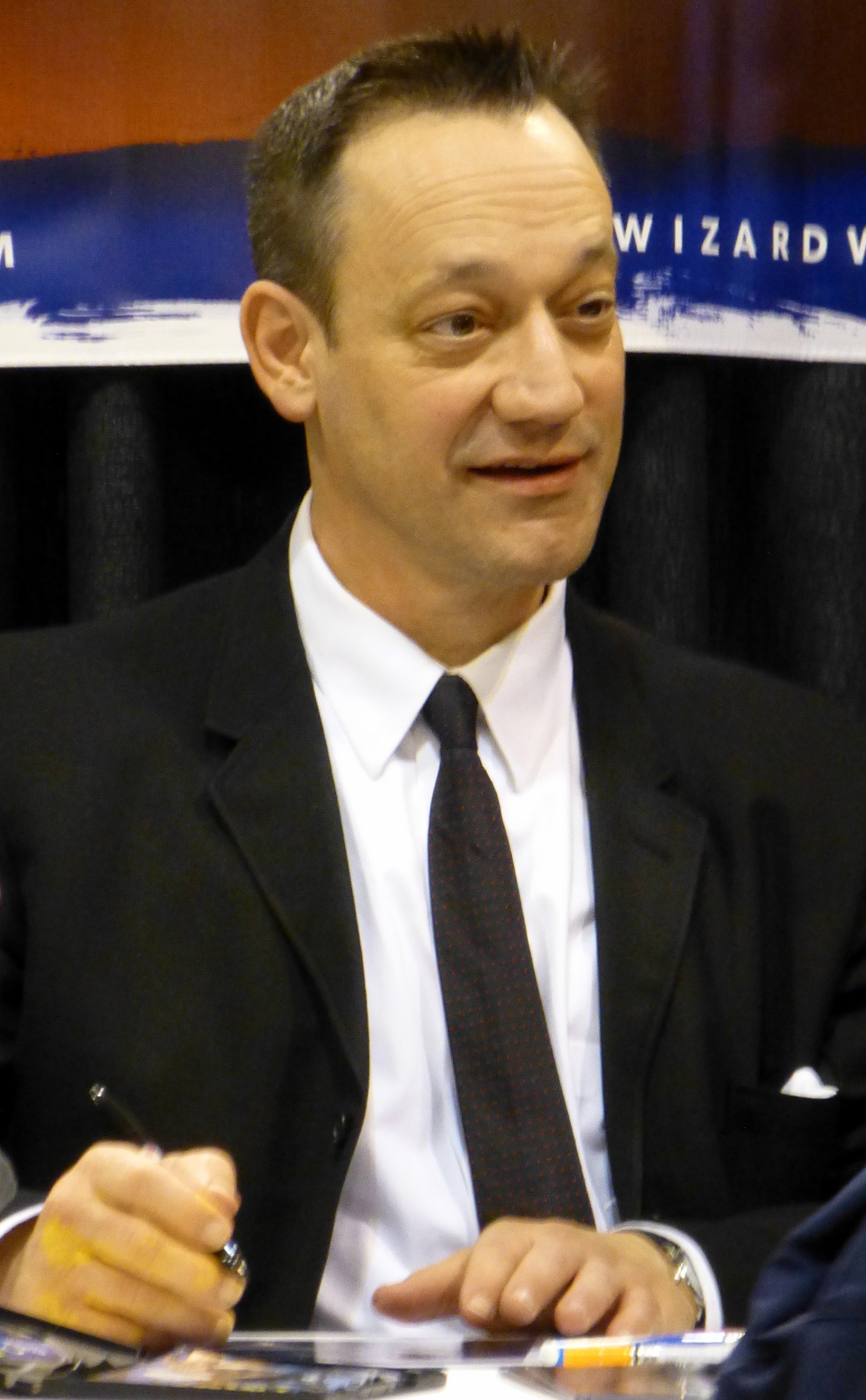 Raimi at the 2014 Wizard World in St Louis